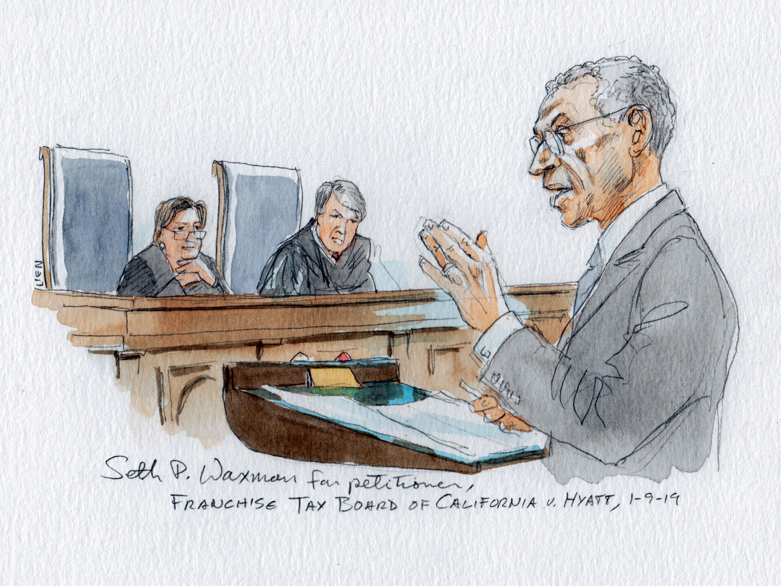 Seth P. Waxman presents oral arguments before the US Supreme Court in the case Franchise Tax Board of California v. Hyatt. He represents the petitioner, the Franchise Tax Board of California. In the background, Justices Elena Kagan and Brett Kavanaugh look on.